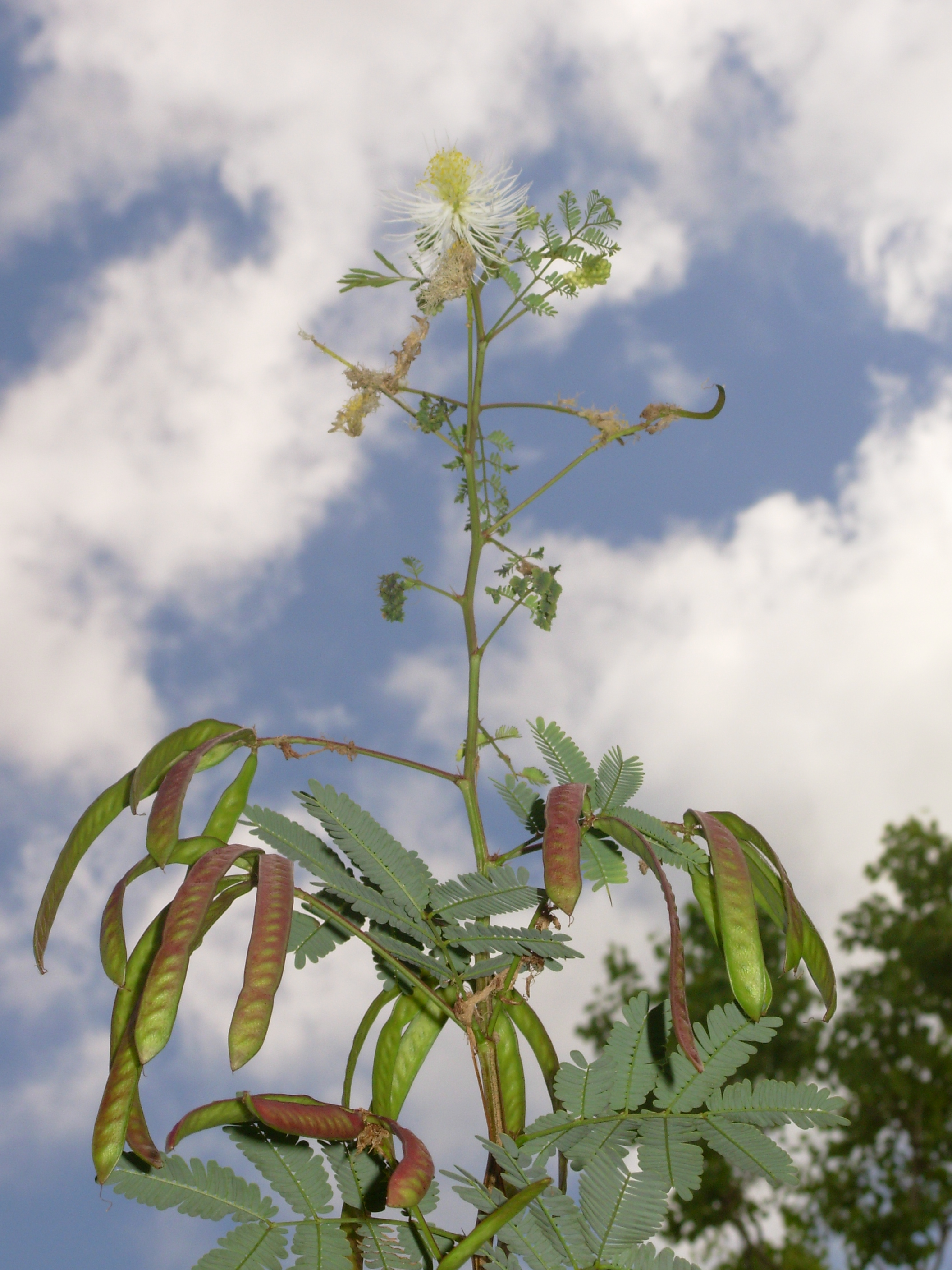 desmanthus fruticosus pods